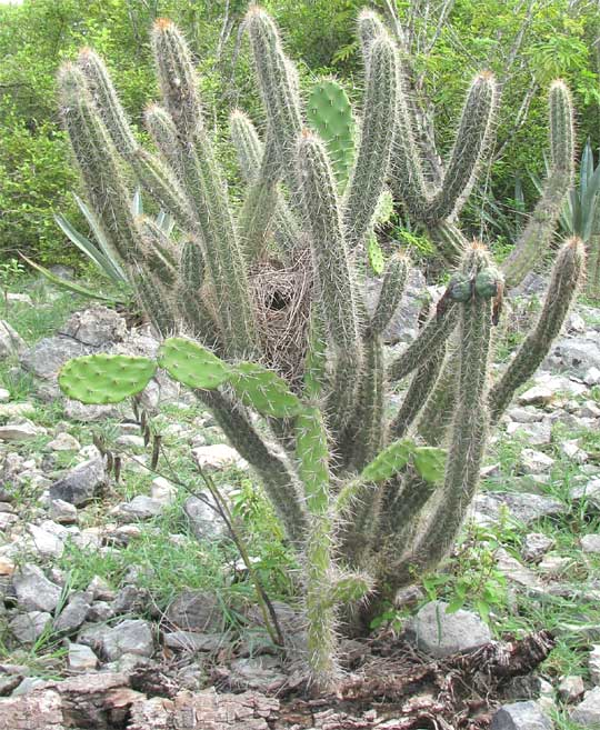 The smaller cactus in the front is probably Opuntia inaperta. The larger one behind is probably Cephalocereus gaumeri = Pilosocereus gaumeri.